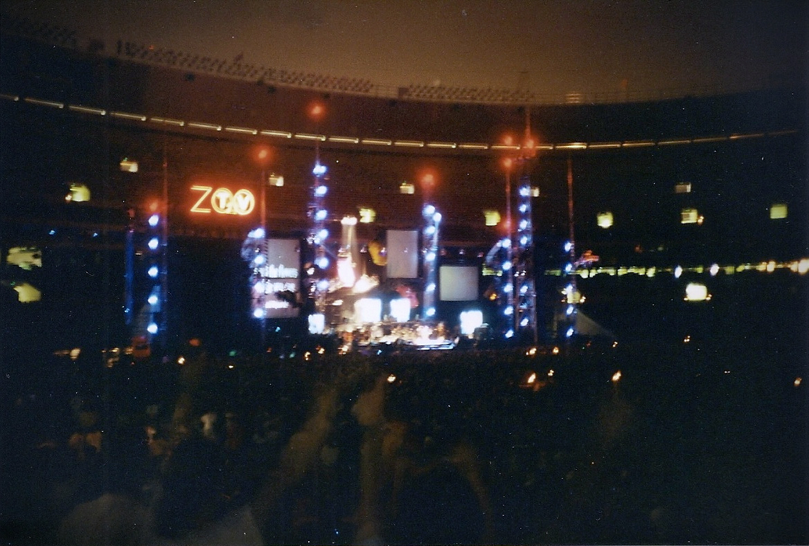 U2's Zoo TV Tour at Veterans Stadium in Philadelphia. The band is finishing its performance of "One" during the early part of the set; some fans are holding up lighters and a video screen shows the text "smell the flowers while you can. David Wojnarowicz"